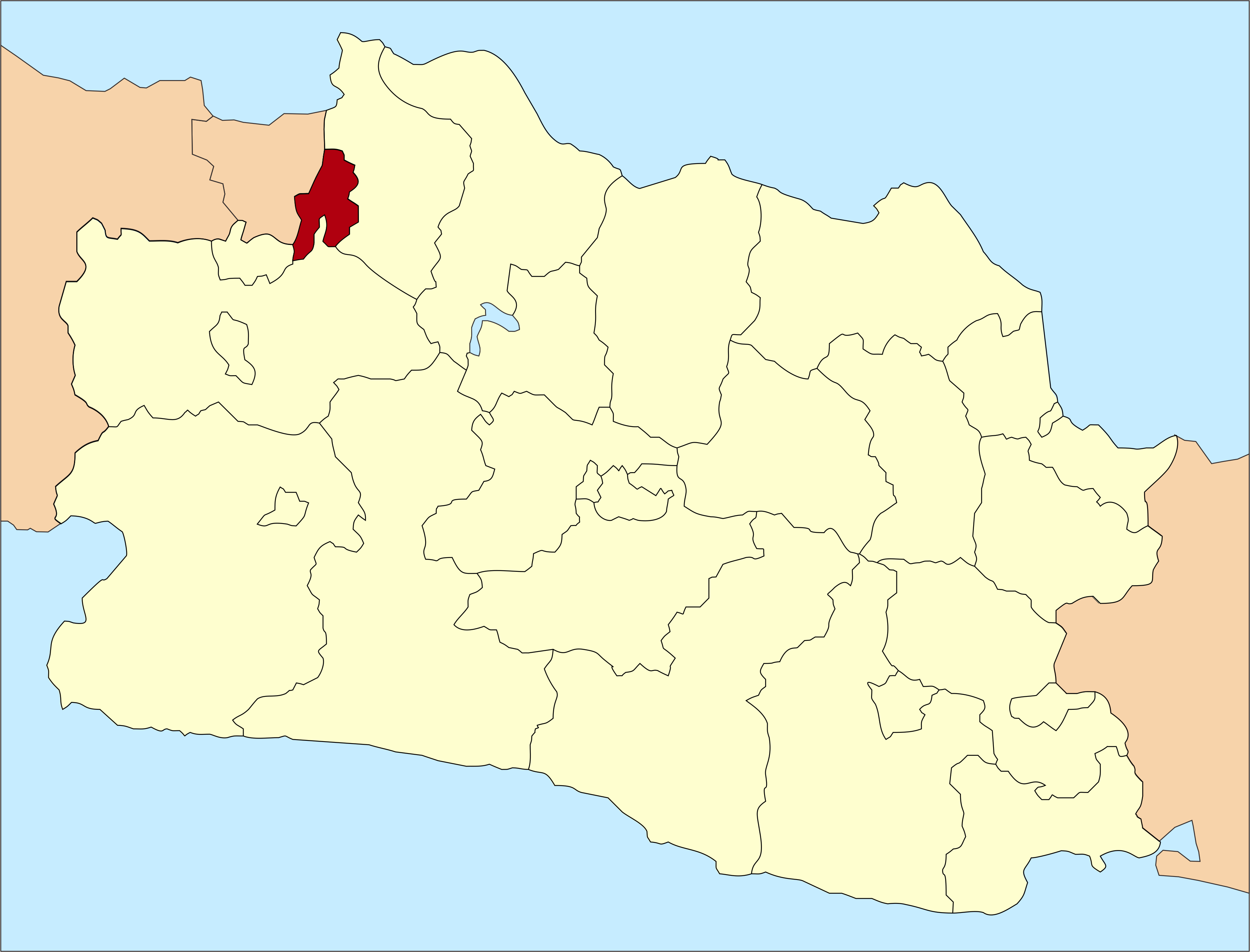 Locator map of Bekasi City, West Java